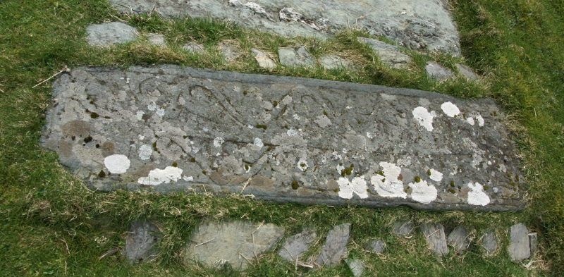 Kilnave Chapel, Islay, Argyll and Bute, Scotland. 16th Century graveslab.